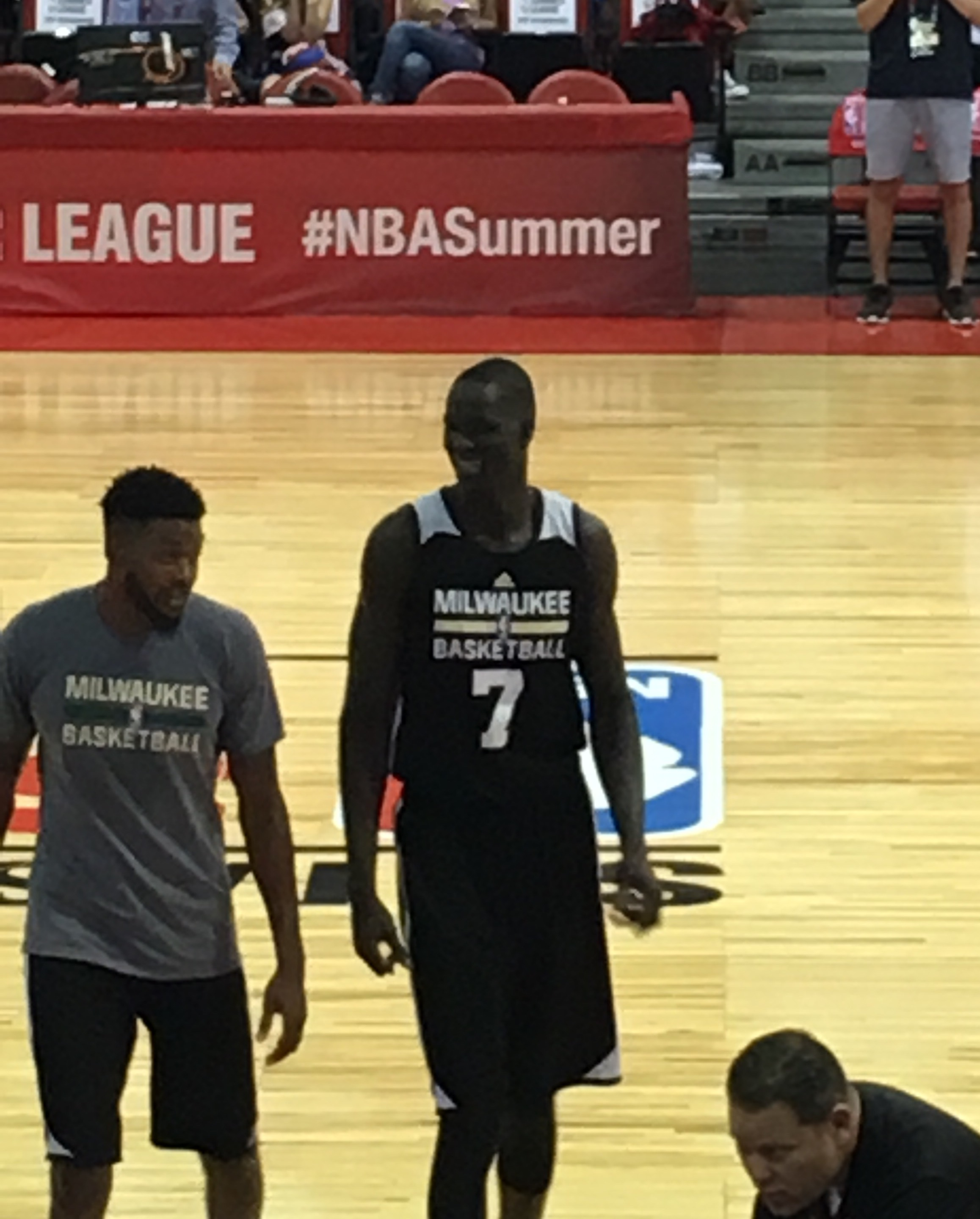 Thon Maker at NBA Summer League